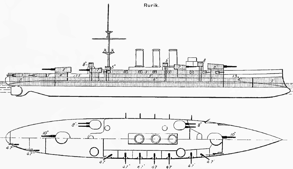 Sketch of the Russian armoured cruiser Rurik.